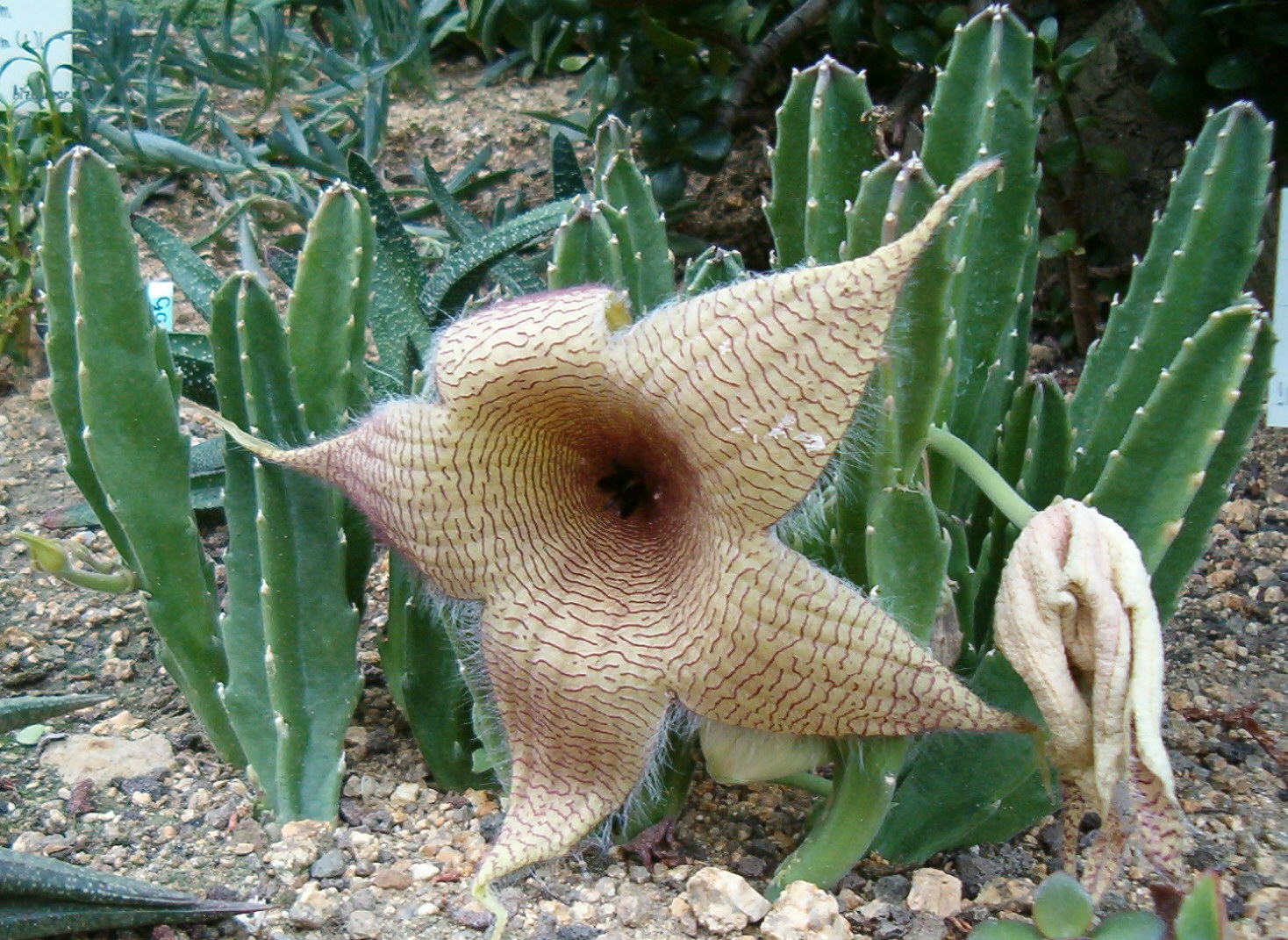 Habitus and Flower Location: Botanical Gardens Berlin